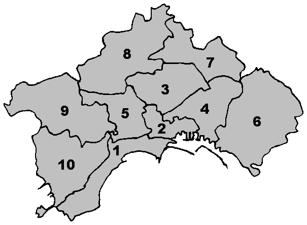 Map of all 10 Municipalities of Naples